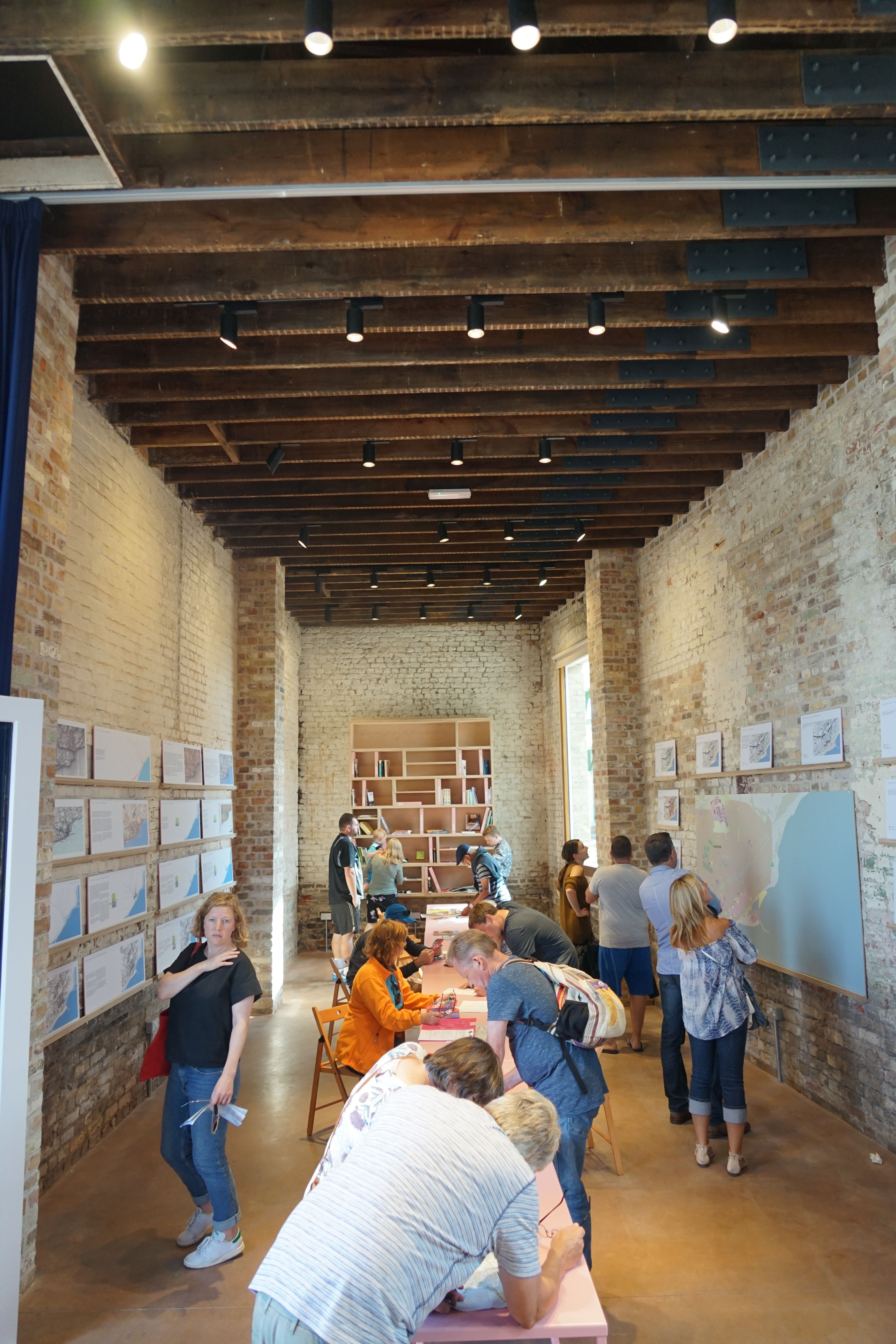 Interior view of the Customs House in Folkestone harbour, refurbished and reopened in 2018, by ACME